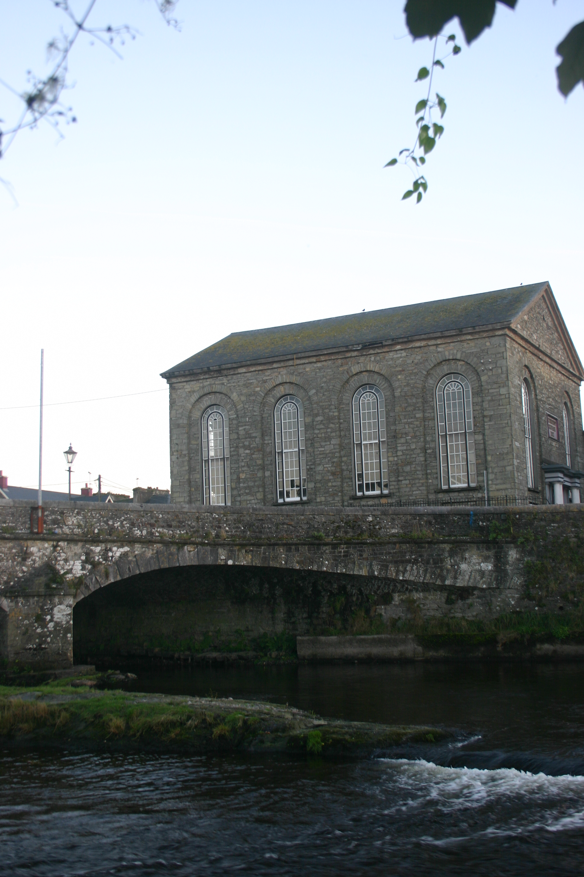 Splayed skew arch approaching Bandon Bridge